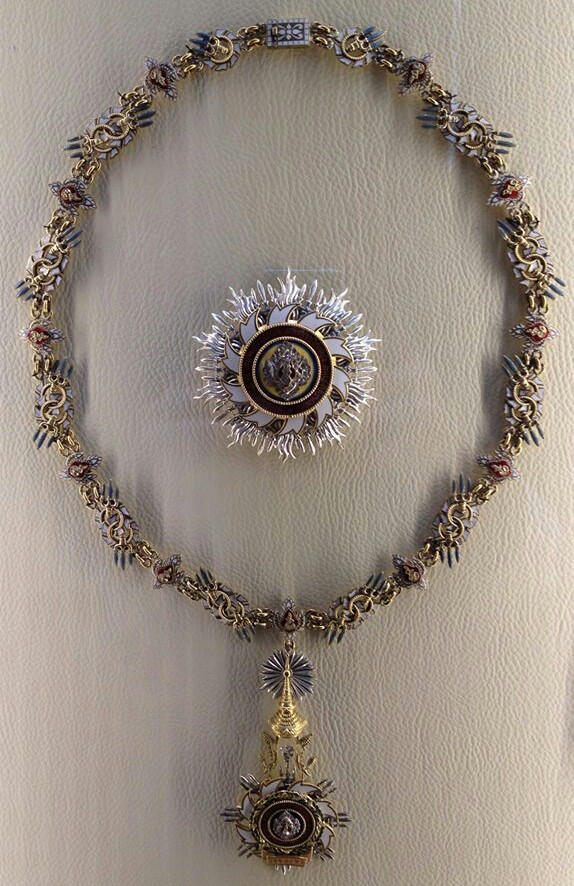 Collar and Star of the Order of the Royal House of Chakri. In the Museum of the Légion d'Honneur in Paris. I took the picture as we are allowed to take them without flash.